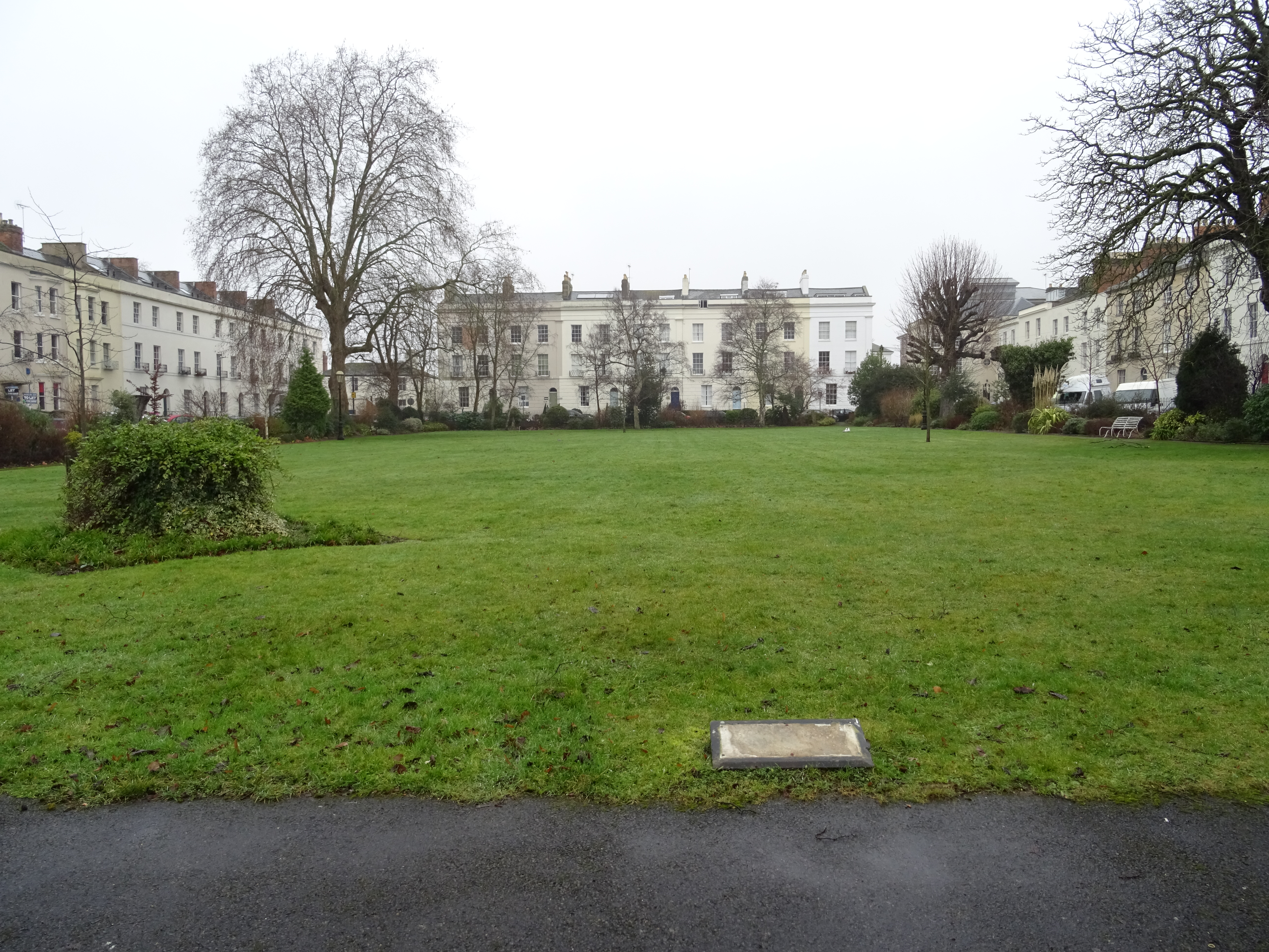 The park within Brunswick Square in Gloucester